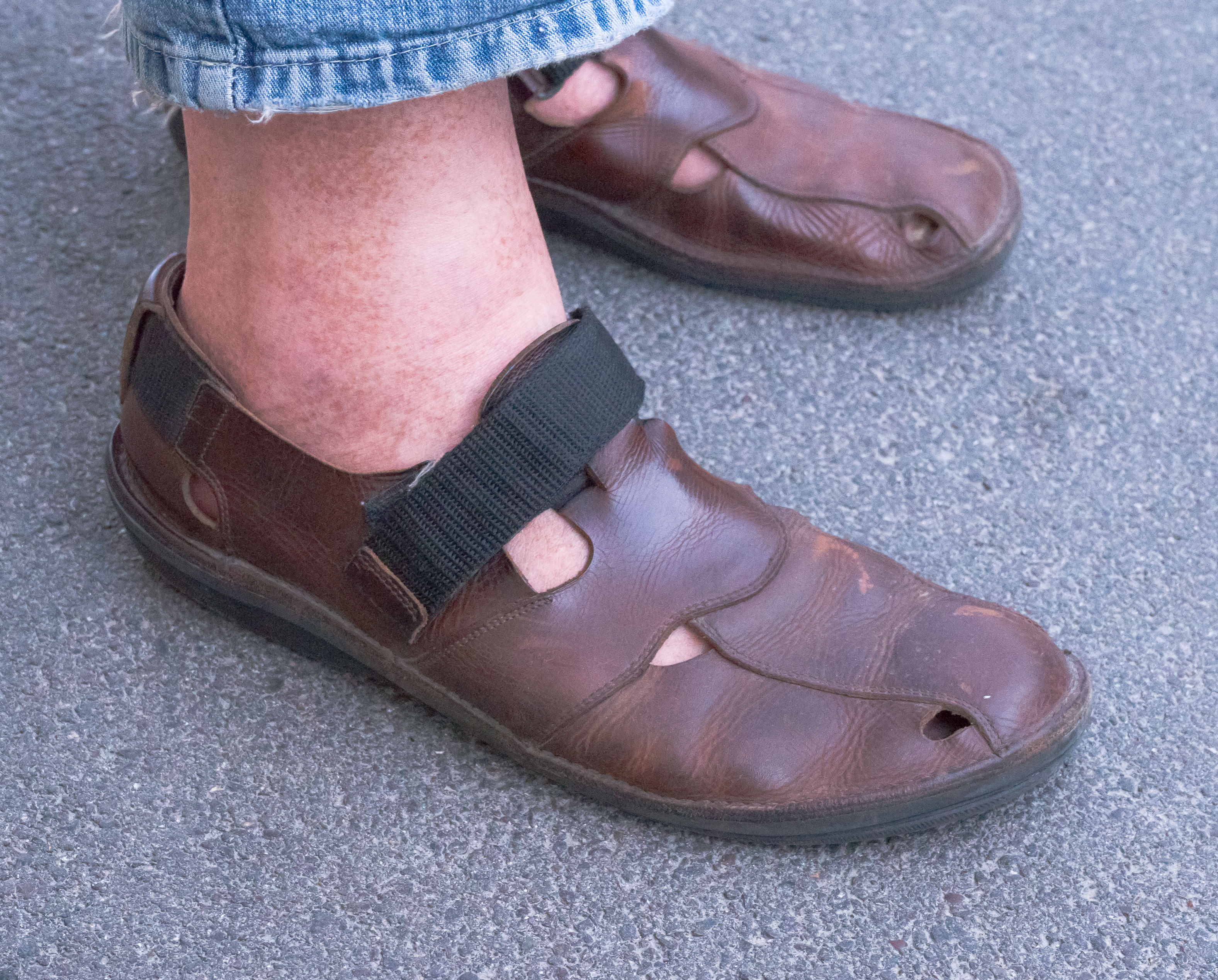 Closed mens leather sandals.